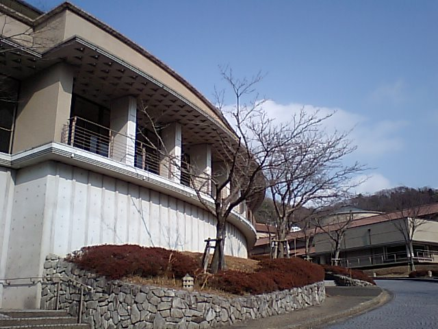 International Research Center for Japanese Studies, Kyoto, Japan. 国際日本文化研究センター。京都市西京区。